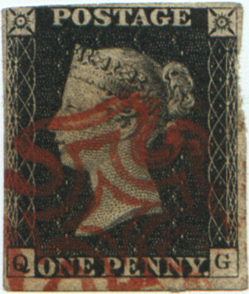 The Penny Black, partially obscured by a red cancellation.